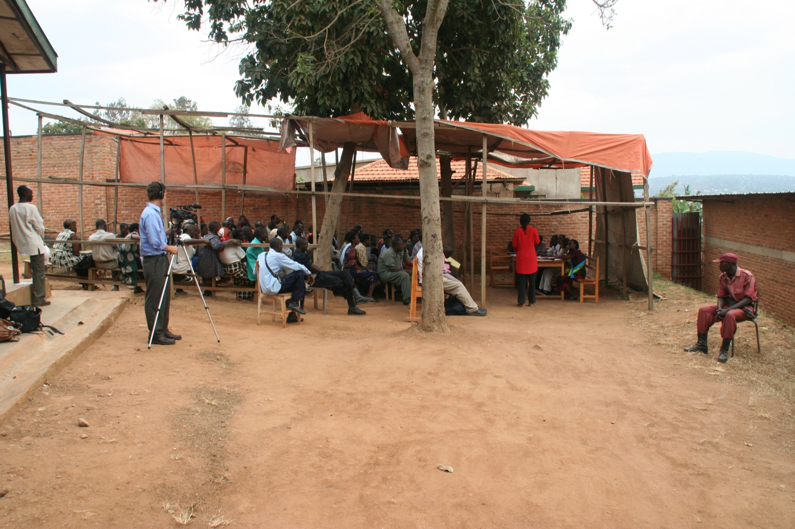 Gacaca is Rwandas justice system for perpetrators of the genocide in 1994. It is a community justice system that involves victims and witnesses from that neighborhood